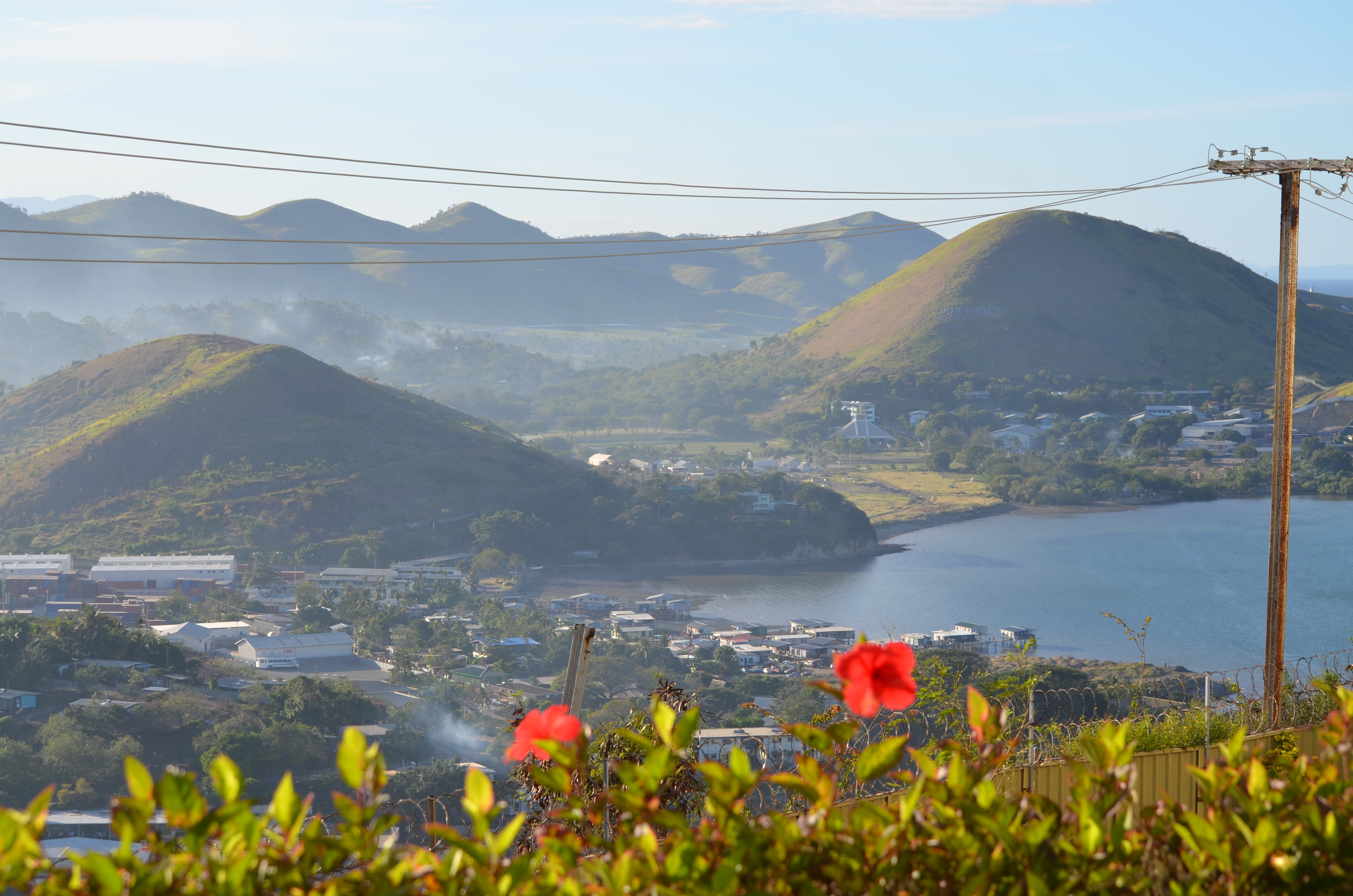 Port Moresby is the capital of Papau New Guinea. Read about PNG on eGuide Travel